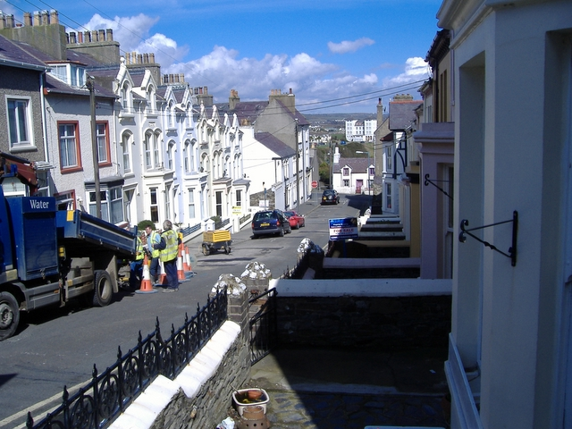 Victoria Road, Port St Mary Looking from the top of this road towards the junction with Bay View Road. The Water Board are digging the road up.